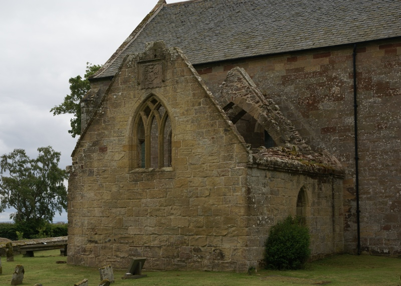 Fearn Abbey, Highland, Scotland - mausoleum on the north side